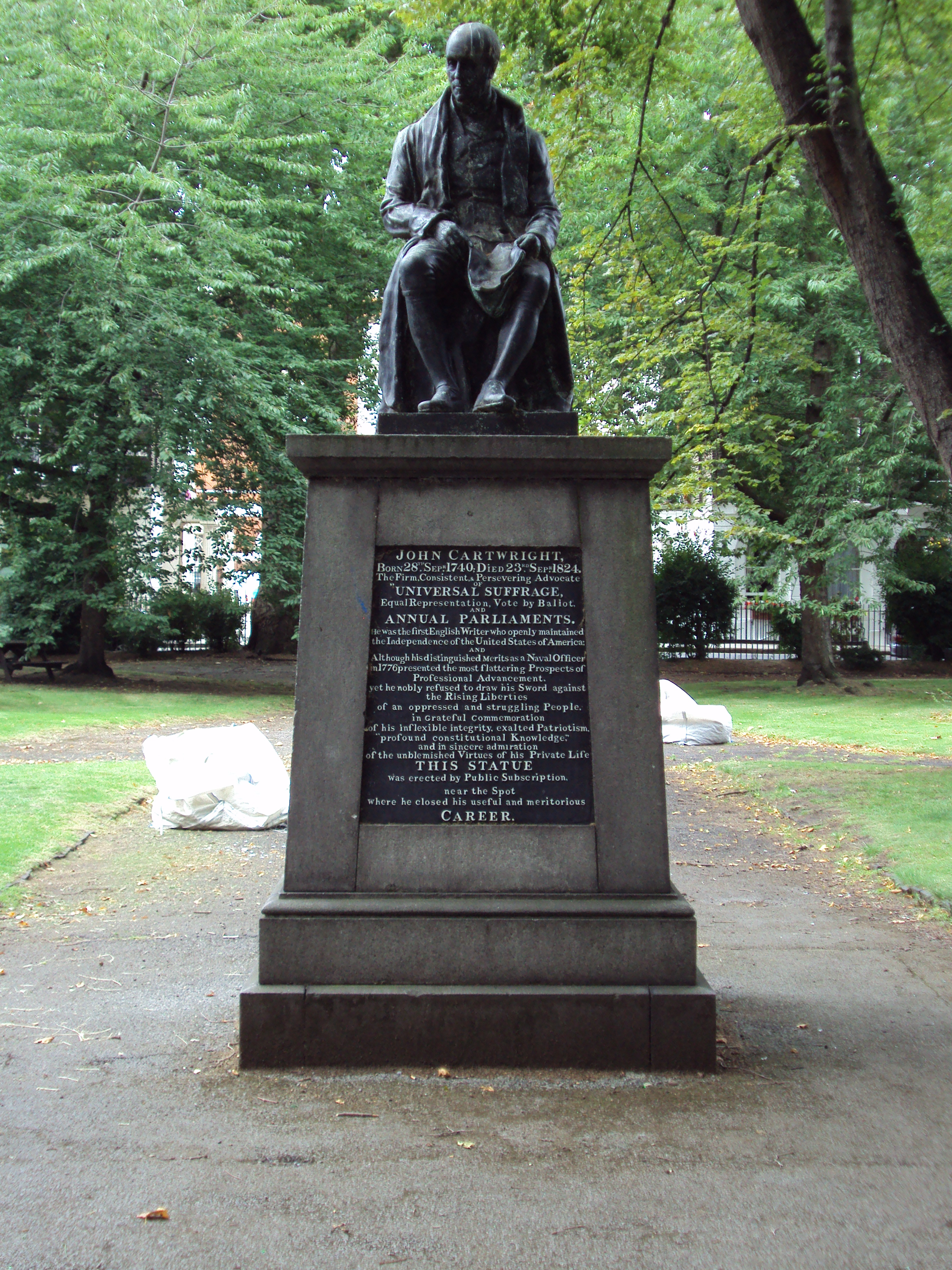 Statue of John Cartwright at Cartwright Gardens, off Euston Road, London, England.